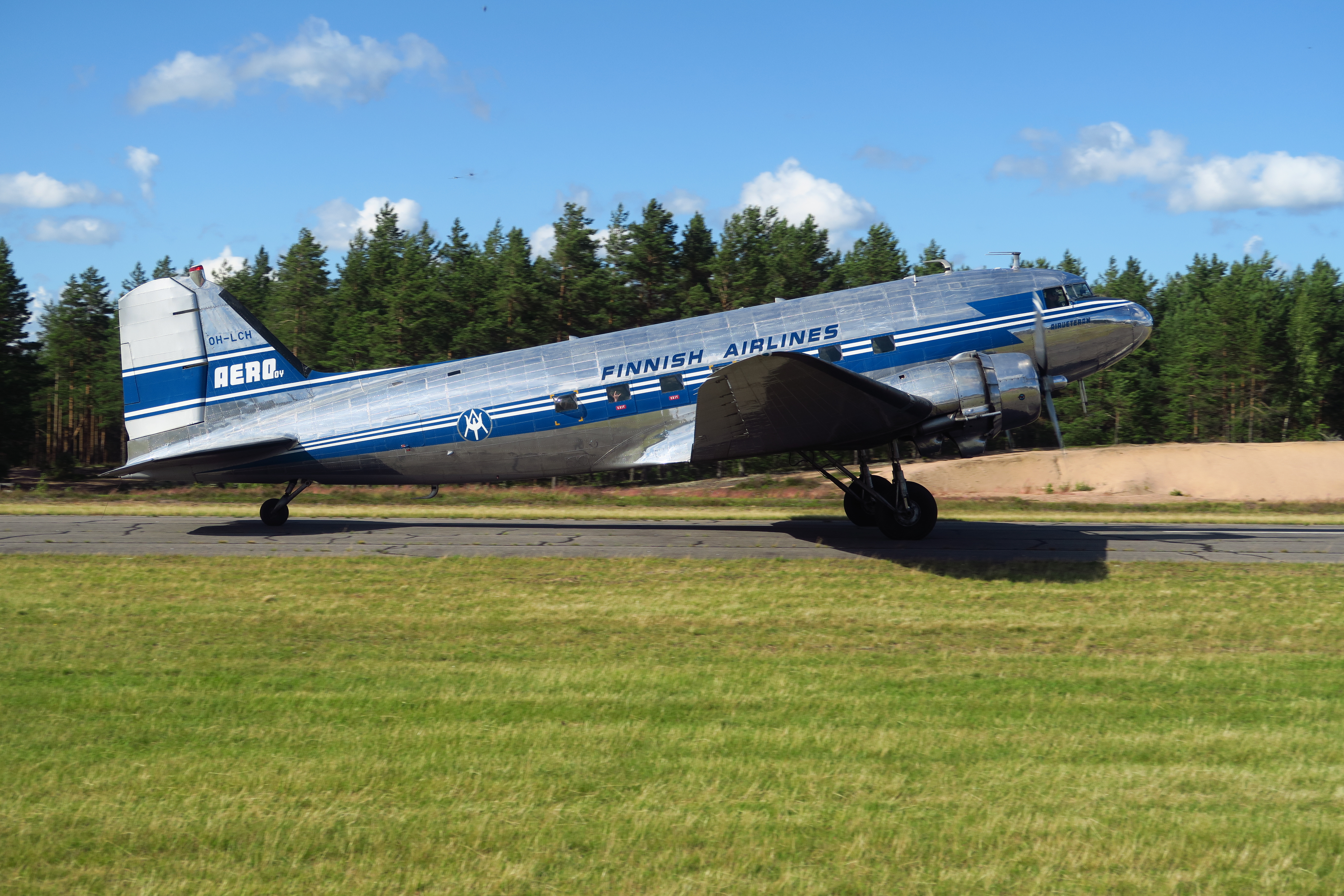 Douglas DC-3 aircraft (OH-LCH) at Jämijärvi Airfield (EFJM) in Jämijärvi, Finland